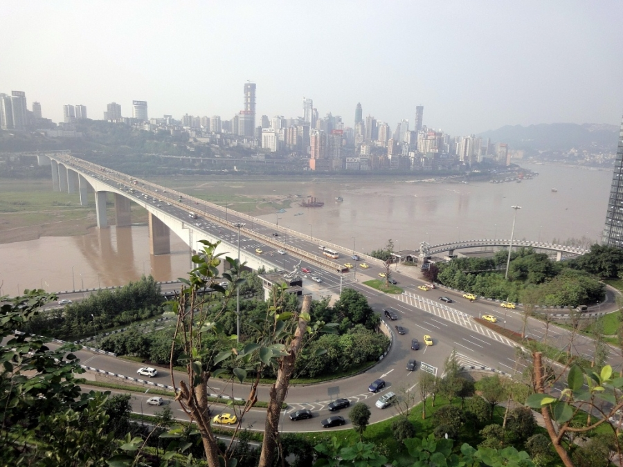 The Shibanpo Bridge over the Yangtze River in Chongqing City, China